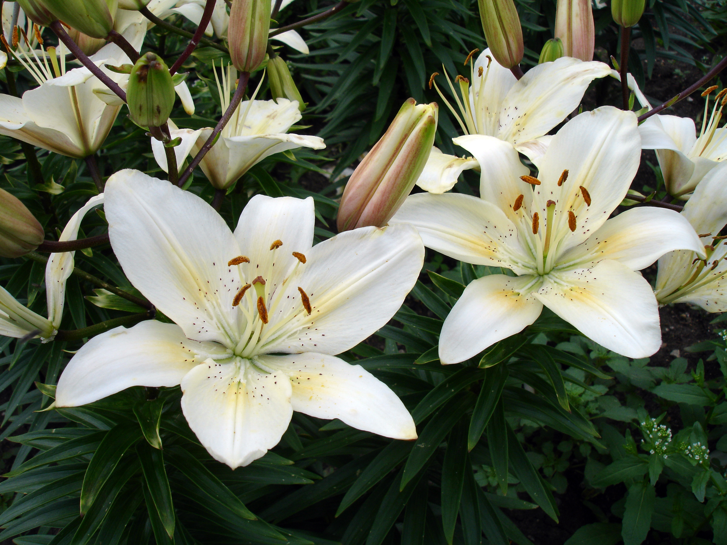 An Asiatic lily, Lilium "University of Saskatchewan", developed plant breeder Donna Hay for the University of Saskatchewan's centennial in 2007.